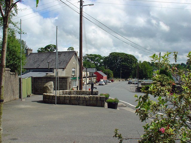 Kildavin village, near to Kildavan and Kilcarry, Carlow, Ireland.